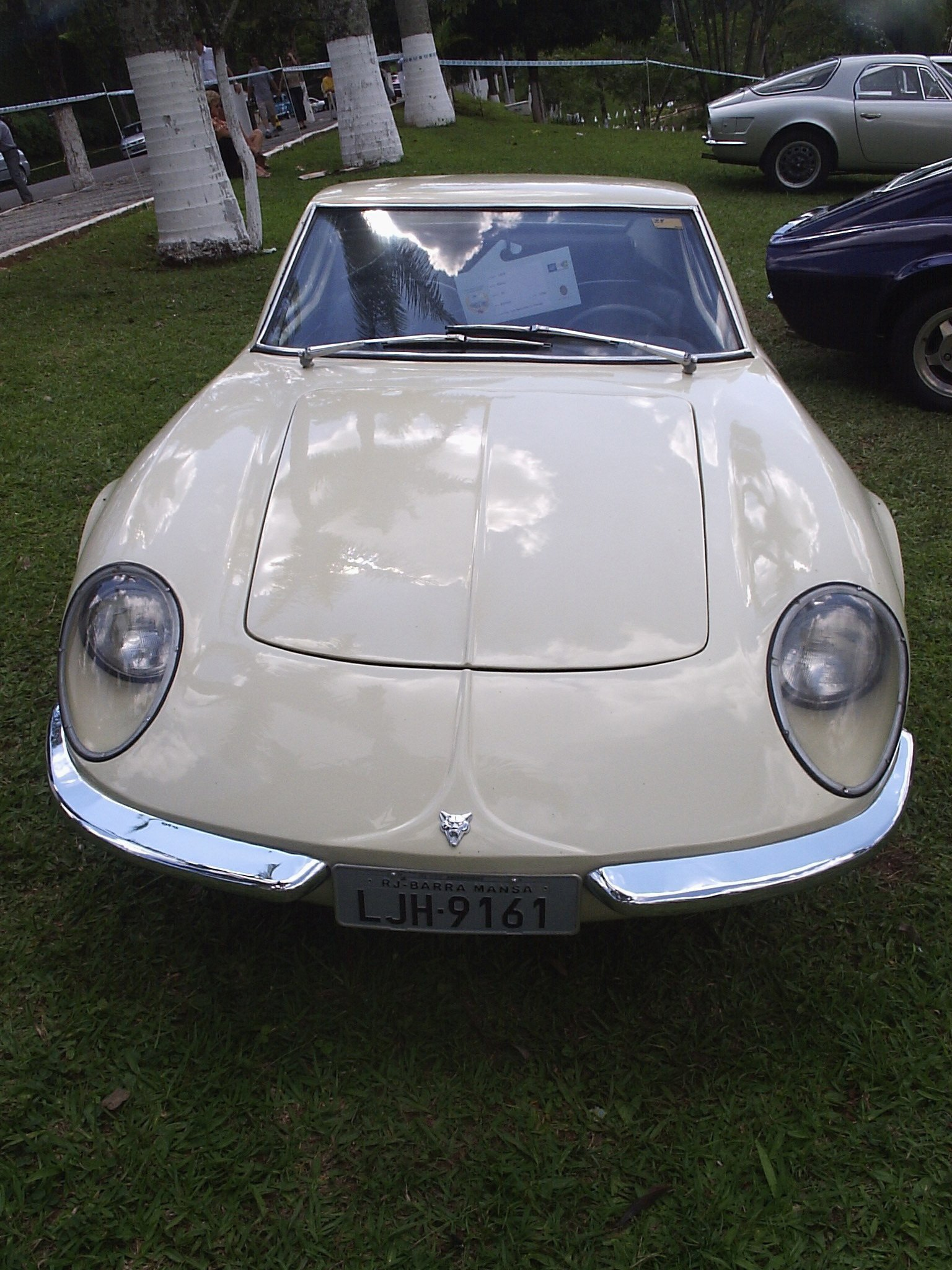 1969 Puma GT, with aircooled VW engine